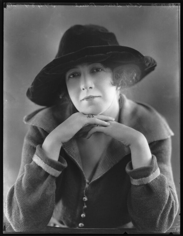 Poldowski (Régine (née Wieniawski), Lady Dean Paul) by Bassano Ltd whole-plate film negative, 29 October 1920 Given by Bassano & Vandyk Studios, 1974 Photographs Collection NPG x120688